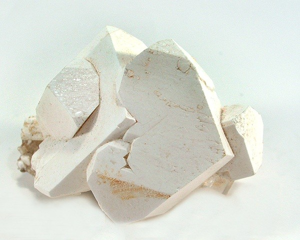 Leonite, Halite Locality: Potash Mine, Roßleben, Querfurt, Saxony-Anhalt, Germany (Locality at ) Leonite as white pseudomorphs after picromerite crystals; minor halite is associated underneath and around the backside. It is, overall, a very attractive miniature. It carries an old label from the Bergakademie Freiberg. Sharp and complete all around, very 3-dimensional. 5.7 x 4.5 x 3.6 cm